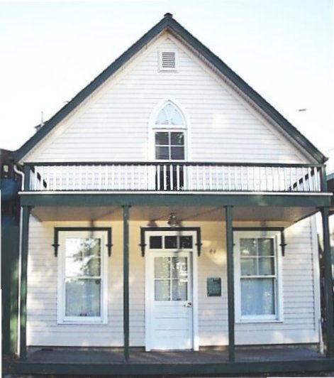 Replica of the 1861 Wilson-Durbin House at A.C. Gilbert's Discovery Village in Salem, Oregon, United States. An example of Carpenter Gothic architecture, it lacks the typical steeply pitched roof, but does have the pointed-arch window in the gable and drip molds over the windows. The original Wilson-Durbin house was listed on the National Register of Historic Places from 1980 until it burned down in 1990. Its shell was reconstructed in 1998 and is used as a multipurpose room.